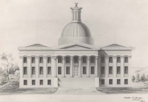 Original design of Alabama State Capitol by Stephen D. Button, an architect in Philadelphia, Pennsylvania.